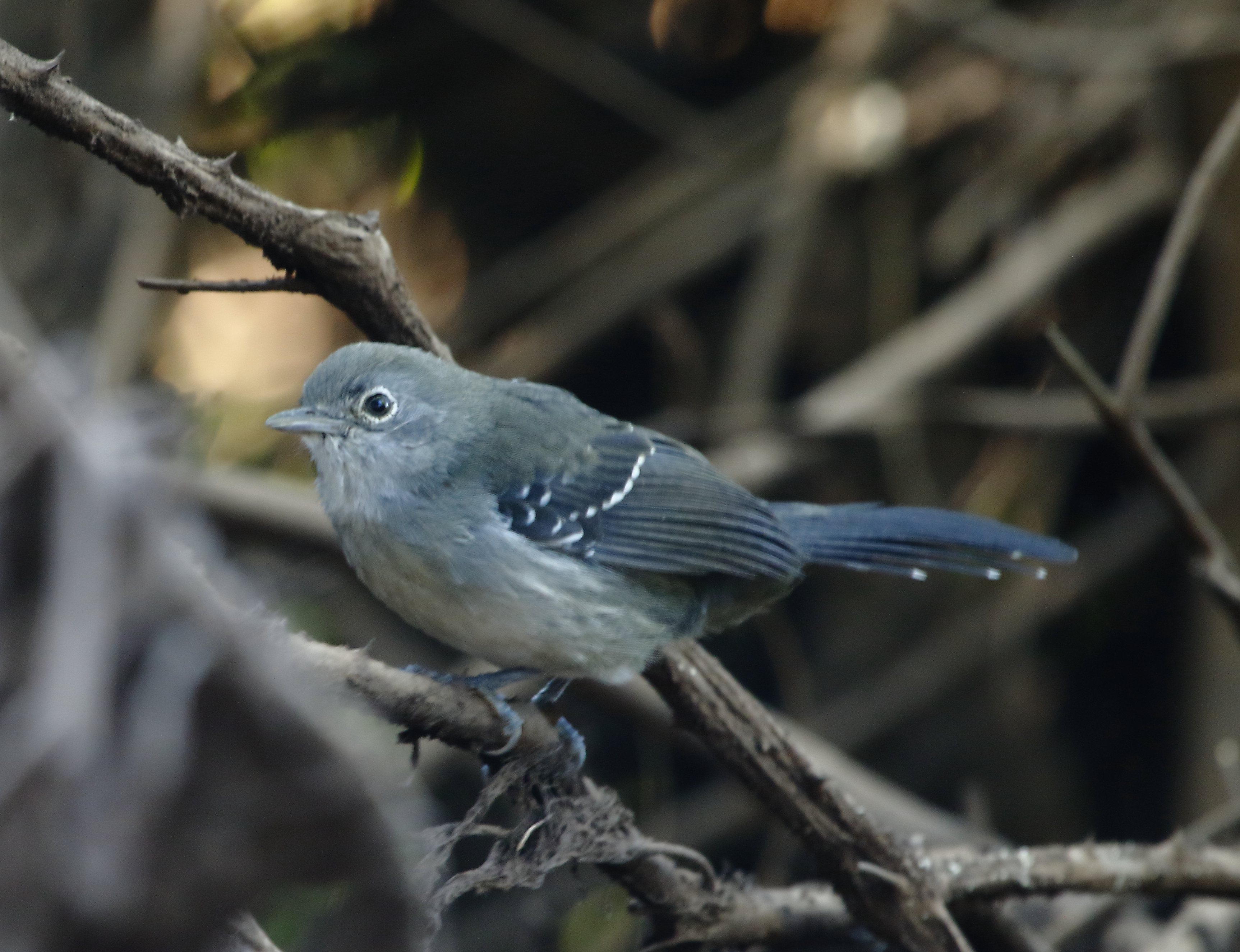 Mato Grosso antbird (female) at Aquidauana - MS - Brazil